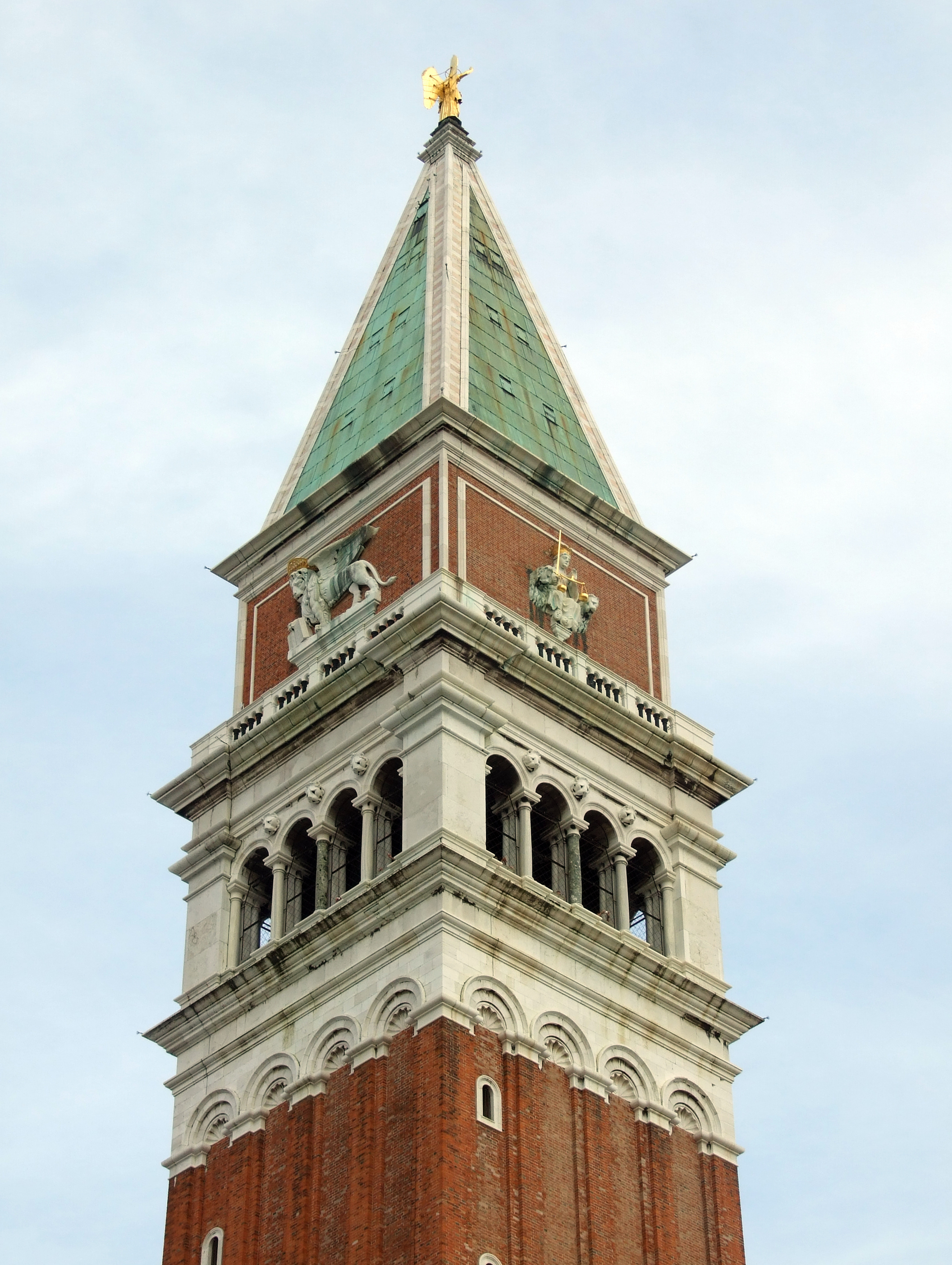 Campanile of St. Mark's Basilica, Venice